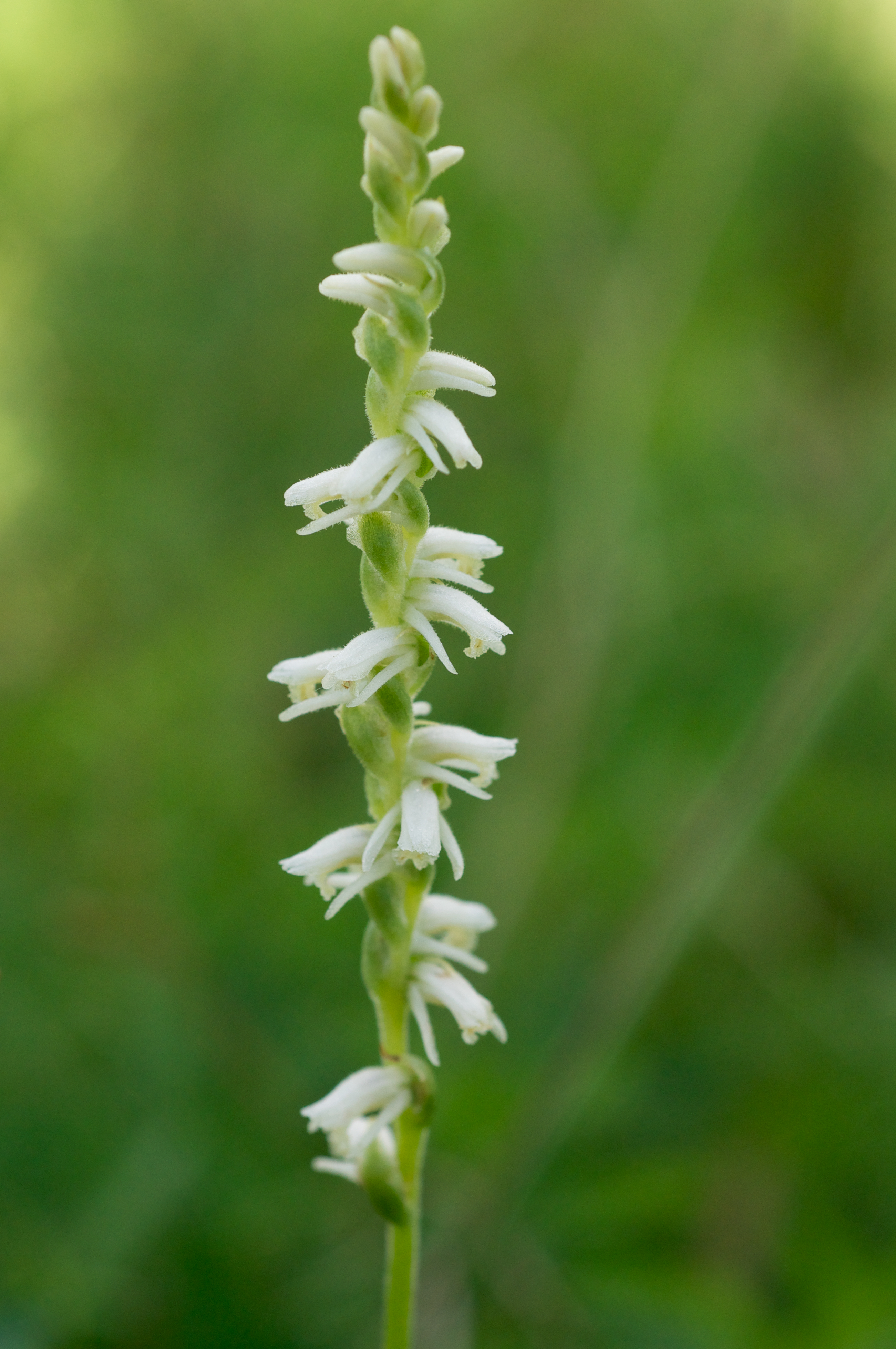 Species from eastern North America below the Great Lakes, South America and the Bahamas Common name: spring ladies-tresses Photographed at Kingsland Prairie Natural Area, Cleveland County, Arkansas